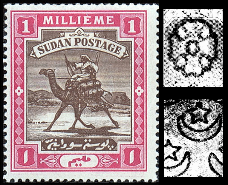 Postage stamp of Sudan, running camel 1m, 1898, different watermarks